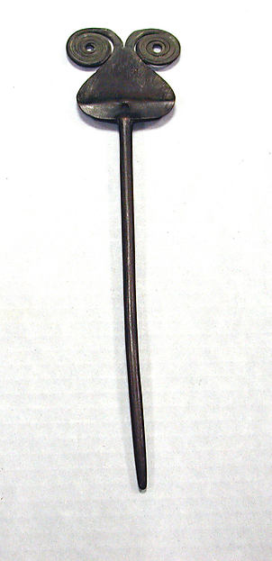 Tupu pin, 1400-1533 AD. Incan culture. H. 11 1/2 × W. 2 3/4 in. (29.2 × 7 cm).